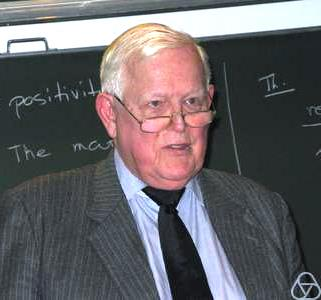 Photo of Rudolf Kalman